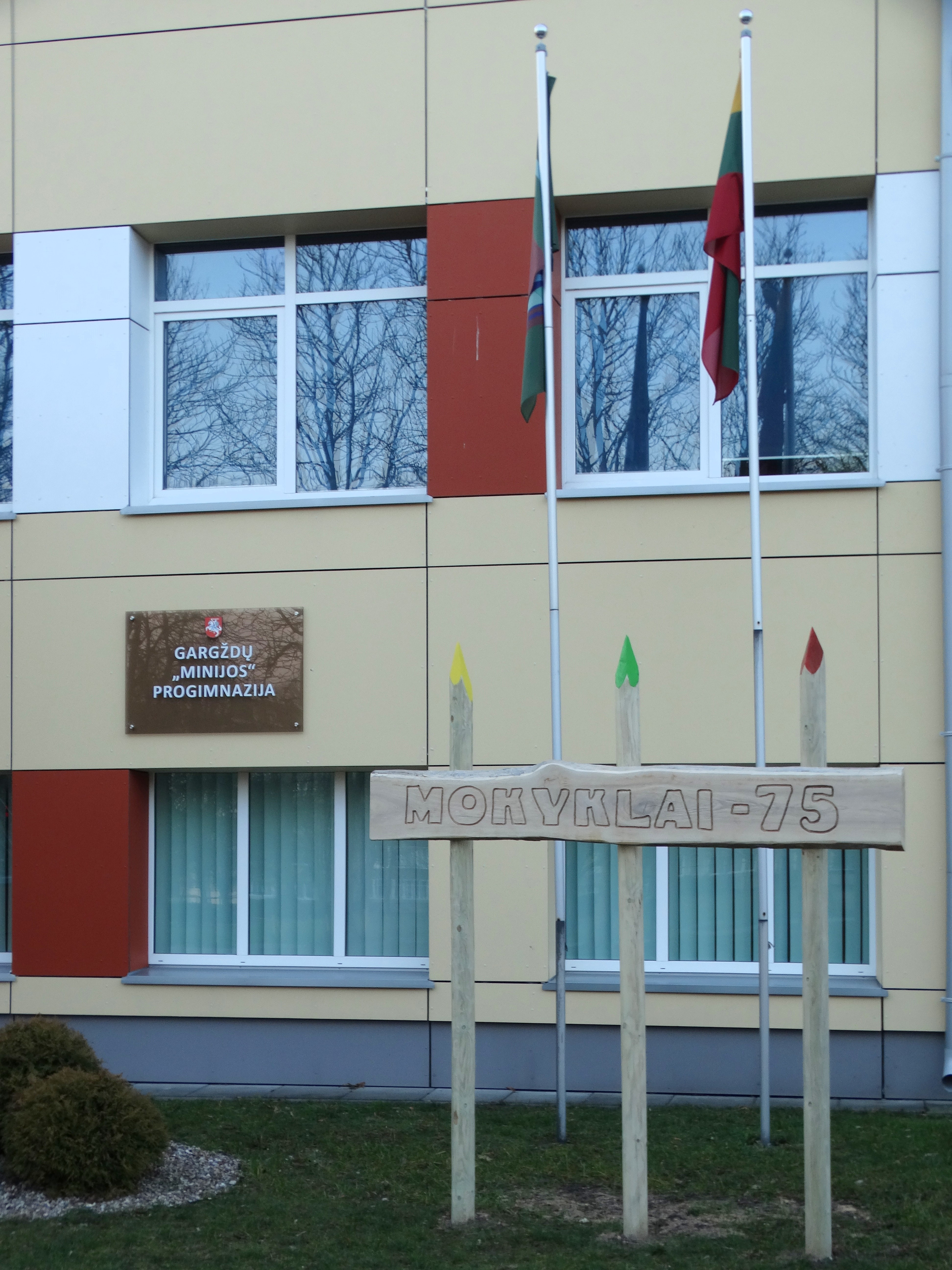 Progymnasium of Minija, Gargždai, Lithuania